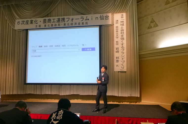 Kunihiko Iwasaki, Professor of the School of Management and Information, University of Shizuoka, gave a lecture at the Hotel Hokke Club Sendai in Sendai City, Miyagi Prefecture on November 24, 2016.